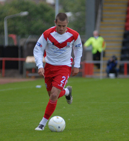 Tom Parratt in action against Dundee